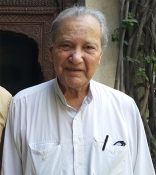 Justice (retired) Javid Iqbal (Urdu: جاوید اقبال; b. October 5, 1924) HI, is a Pakistani philosopher and former senior justice of Supreme Court of Pakistan who is internationally known for his acclaimed publications on philosophy of law and modern Islamic philosophy in reputed international and national journals.